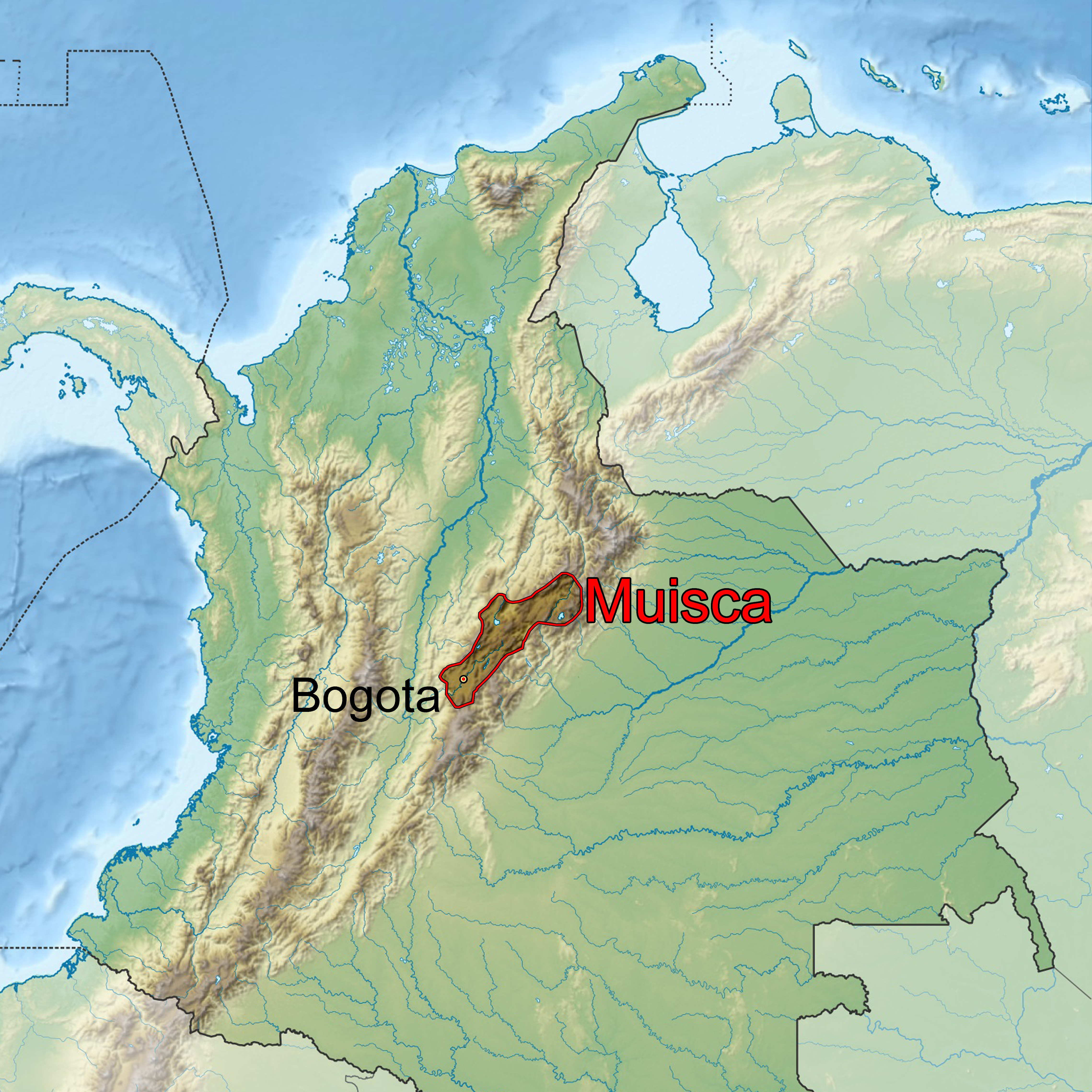 The approximate location of the Muisca in Columbia.